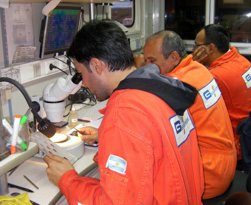 Mud Loggers and Data Engineers working inside a mud logging cabin on an onshore well